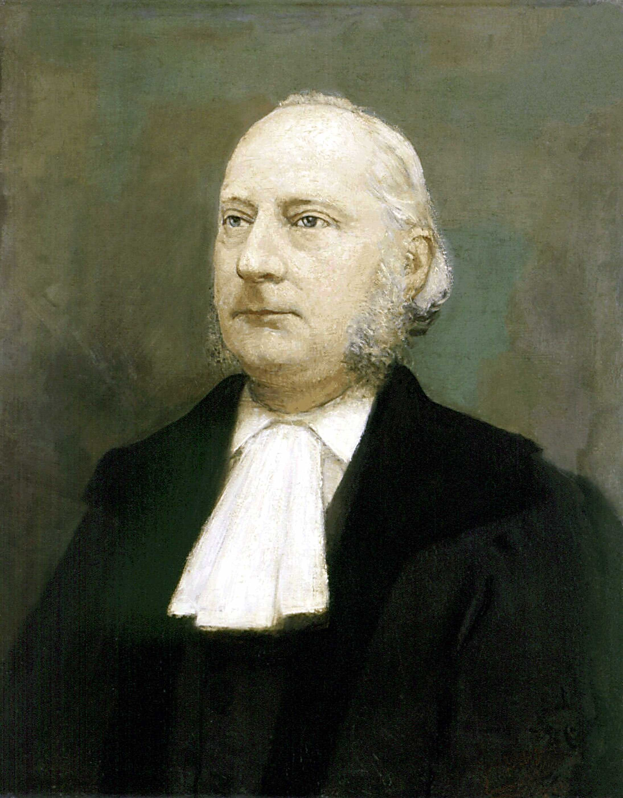 Jacob Cramer (1833-1895) Dutch Reformed theologian and church historian